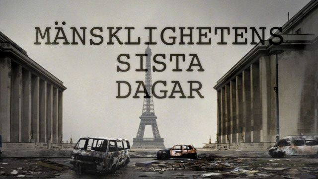 Art work for the documentary Mansklighetens sista dagar - Swedish version. English title - 10 ways to end the World. Alternative English title - Last Days of Man